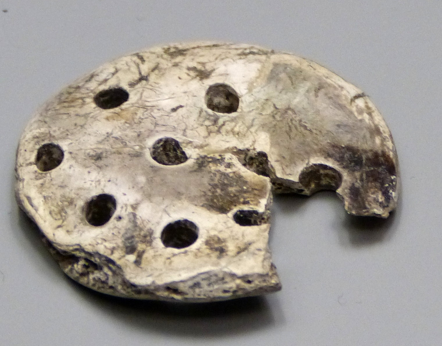 Landau an der Isar ( Lower Bavaria ). Archaeological Museum of Lower Bavaria: Urnfield culture amulet ( 1000 BC ) created of round fragments of human skull made by trepanation, from Wallersdorf.